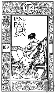 Bookplate for Jane Patterson designed by Robert Anning Bell, English, 1890s. Courtesy of the Victoria and Albert Museum, London